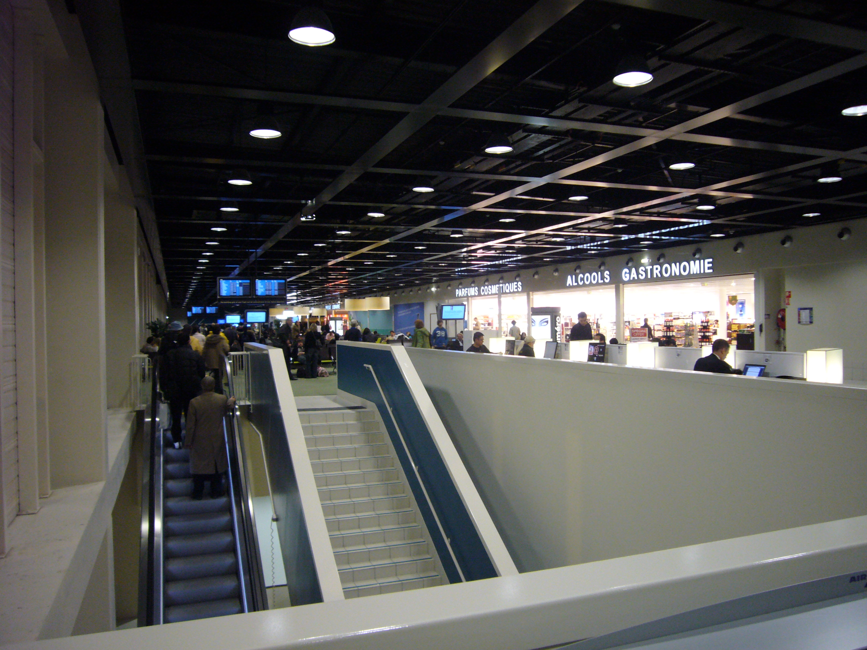 Boarding lounge at Charles de Gaulle International Airport Terminal 2G